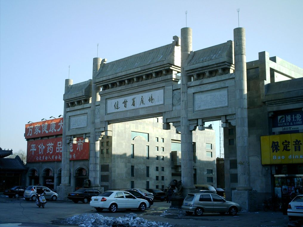 Photo of an archway in Baoding, China